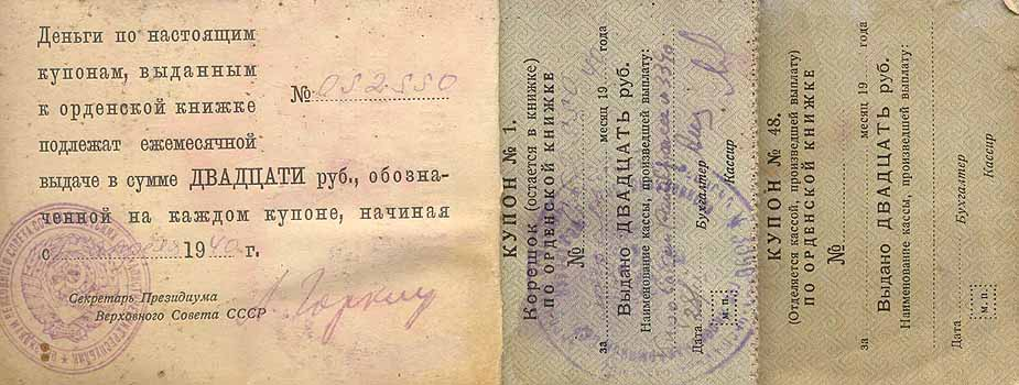 Payment coupon for a Russian military order